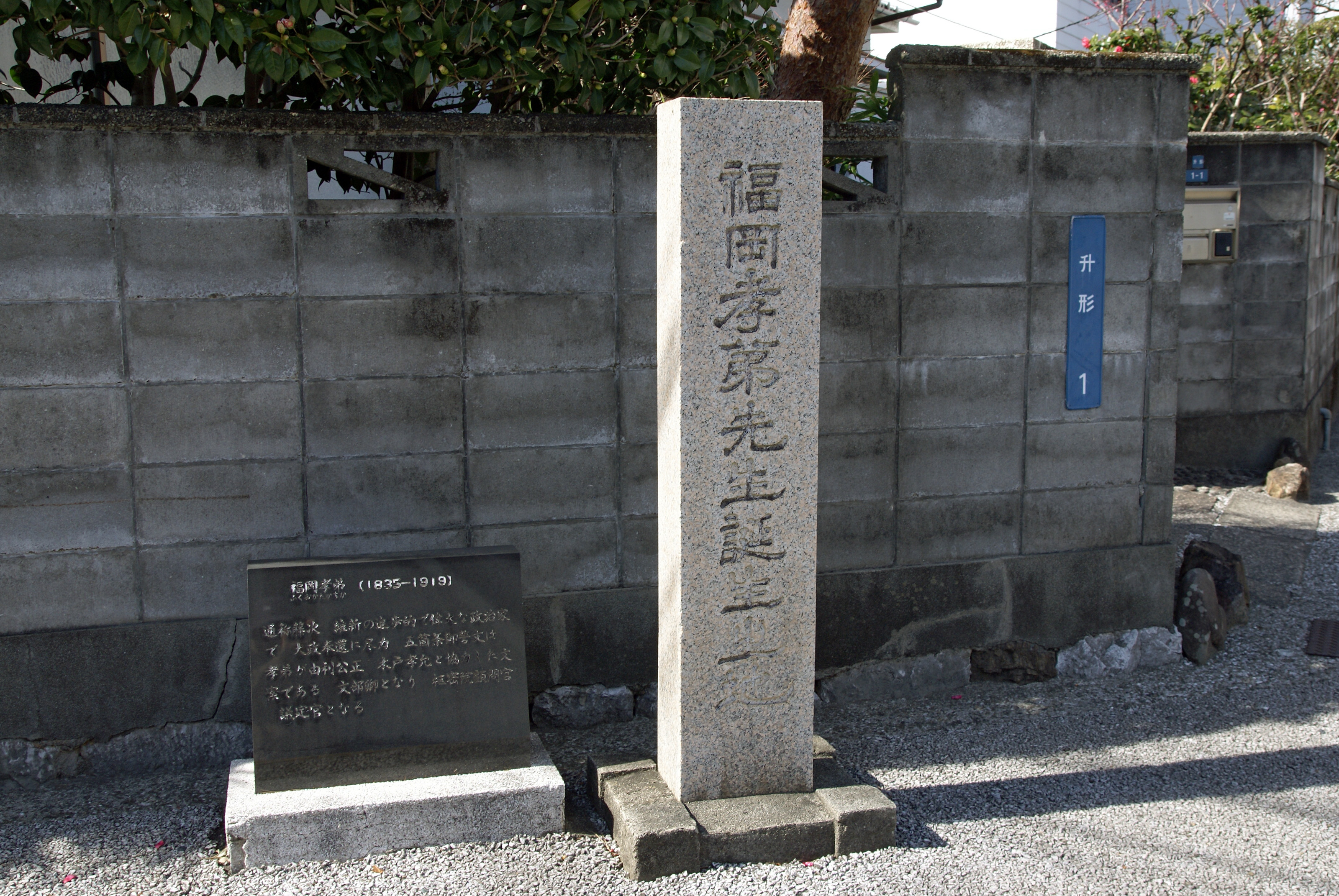 Takachika Fukuoka's Birthplace in Kochi, Kochi prefecture, Japan